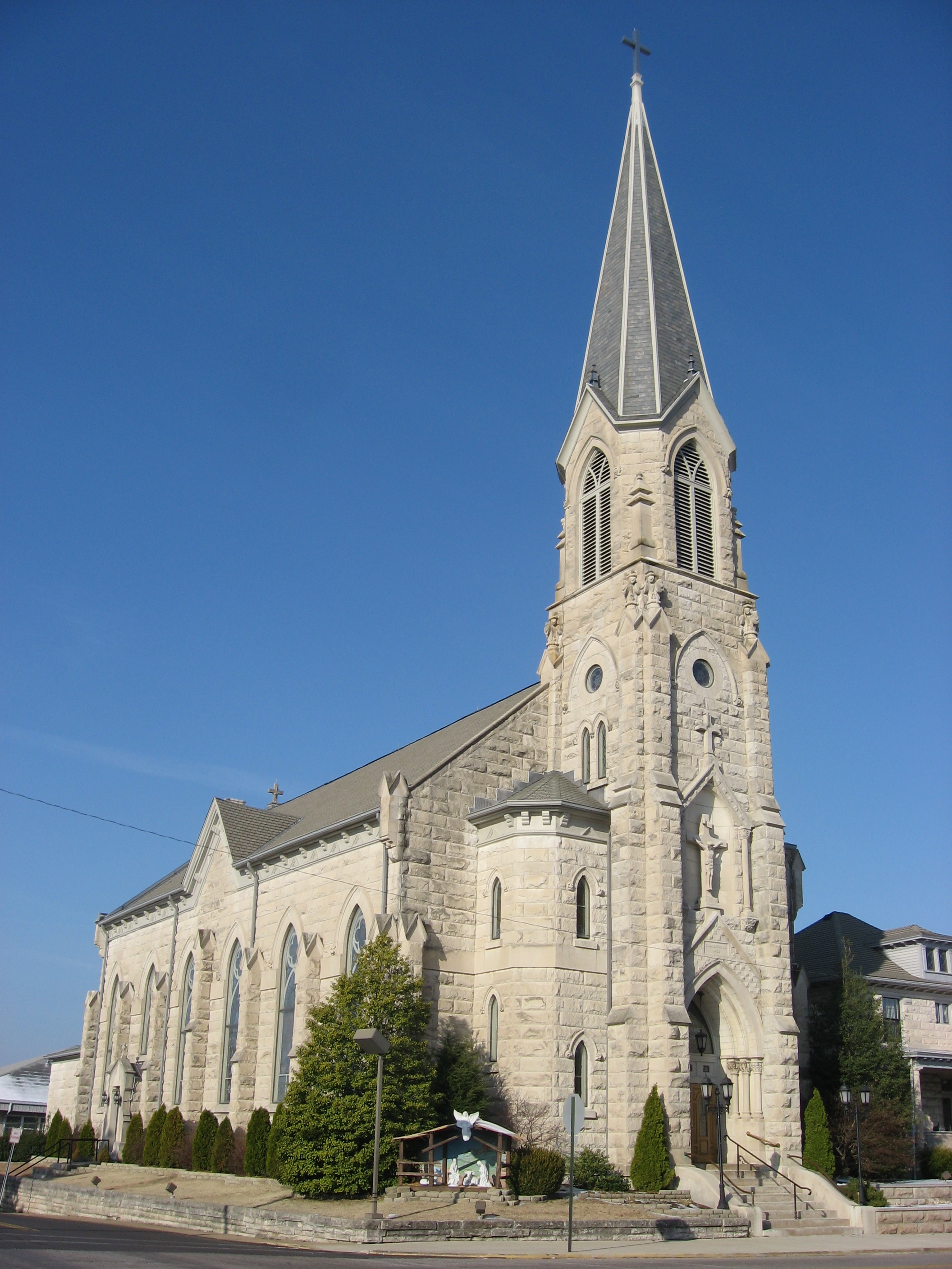 Front and southern side of St. Vincent de Paul Catholic Church, located at 1723 I Street in Bedford, Indiana, United States. Built in 1893, it is part of the Zahn Historic District, a historic district that is listed on the National Register of Historic Places. Church website.